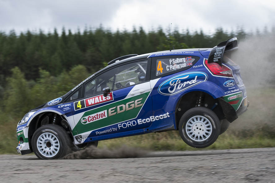 Wales Rally Great Britain 2012 Chris Patterson,Ford Fiesta RS WRC,Ford WRT,Ford World Rally Team,Free Practice,Freies Training,Motorsport,Petter Solberg,Rally,Rallye,Shakedown,WRC,Wales Rally GB,Walters Arena